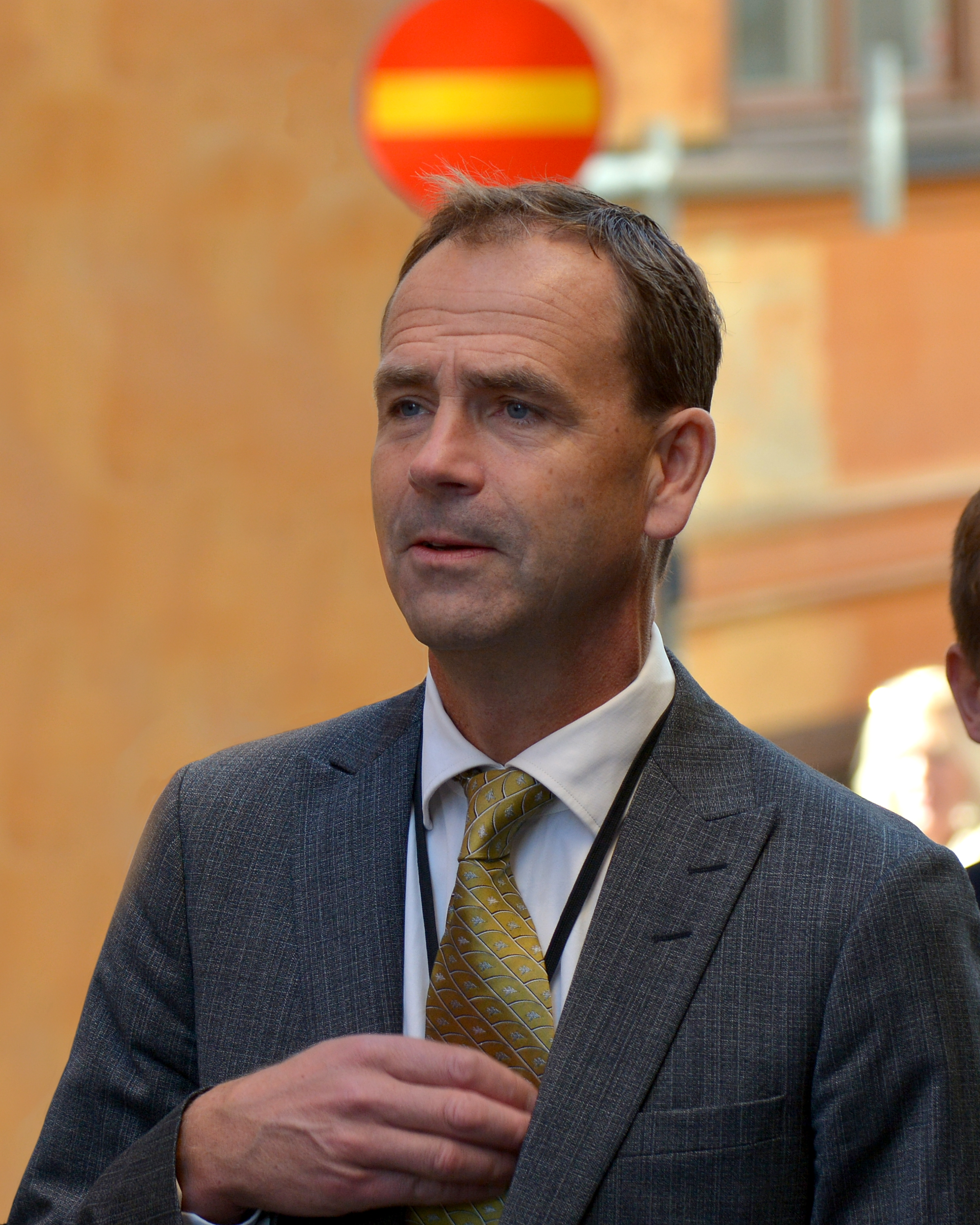 Allan Widman, member of the Riksdag for the Liberal People's Party.